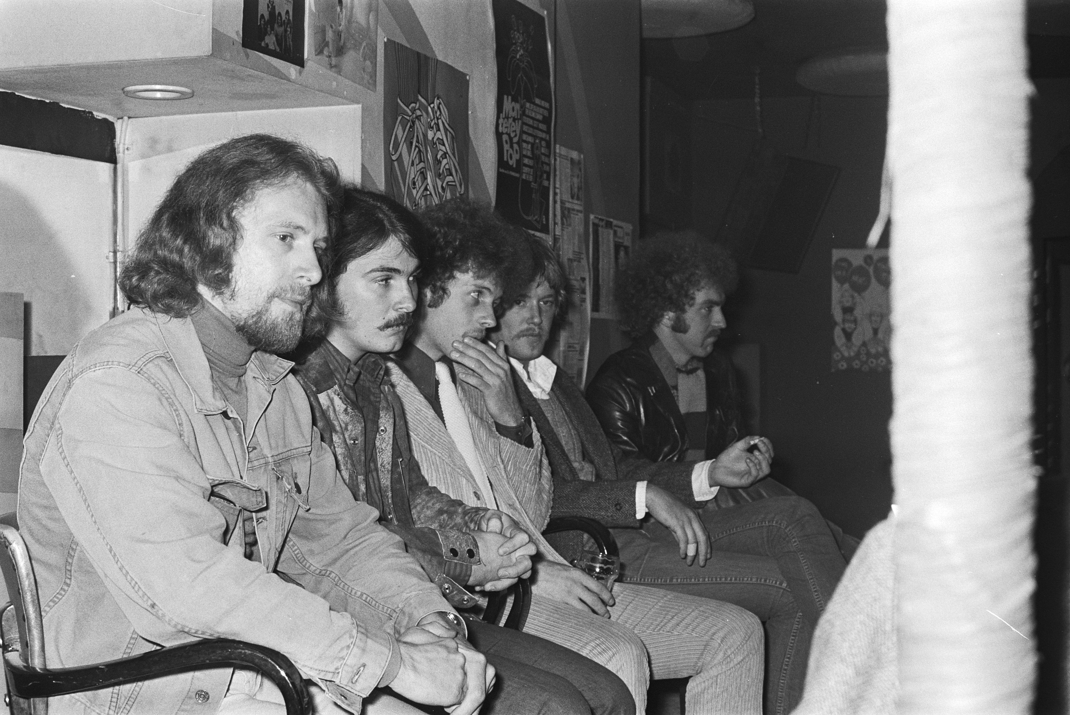 Flying Burrito Bros giving a press conference in the Birdsclub, Amsterdam (NL), 23 Nov. 1970. From left to right: Sneaky Pete Kleinow, Rick Robert, Chris Hillman, Michael Clarke, Bernie Leadon